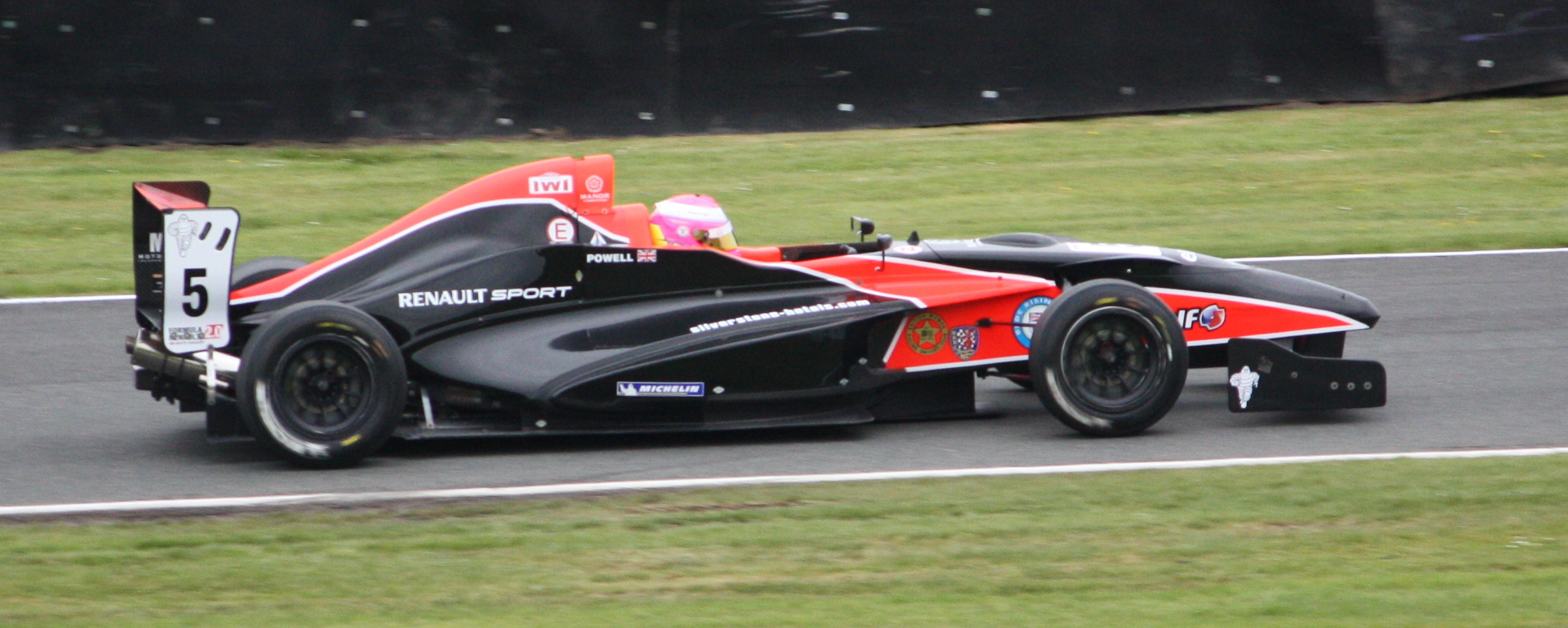 Alice Powell driving for F-Renault.